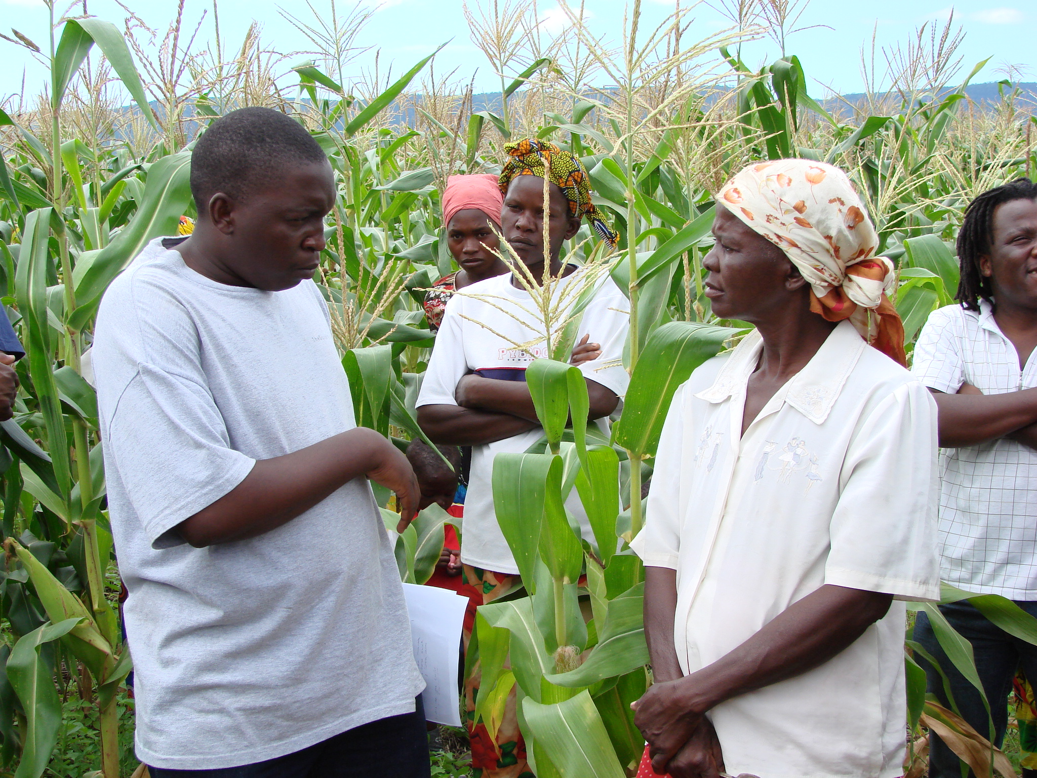 Rural farmers in Binga, northern Zimbabwe, welcome the AusAID Program team into their village.